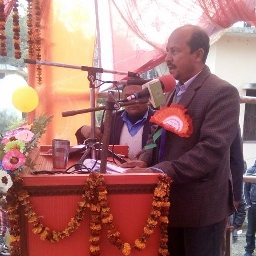 Politician